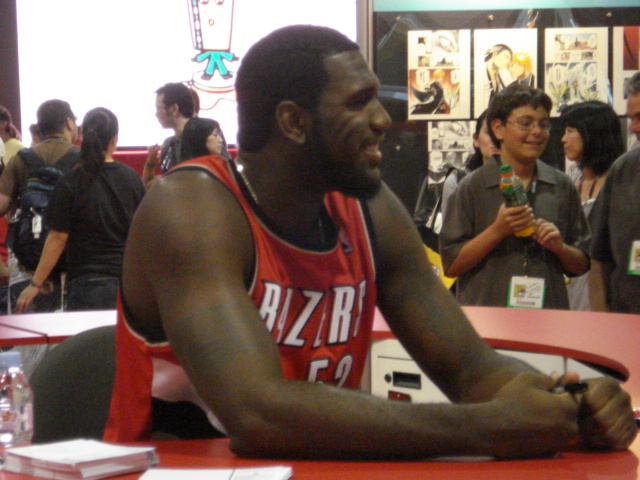 Greg Oden promotes literacy and the manga "Slam Dunk" at the 2008 San Diego Comic-Con.